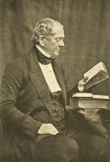 Portrait of Joseph Octave Delepierre (1802–1879), Belgian writer.